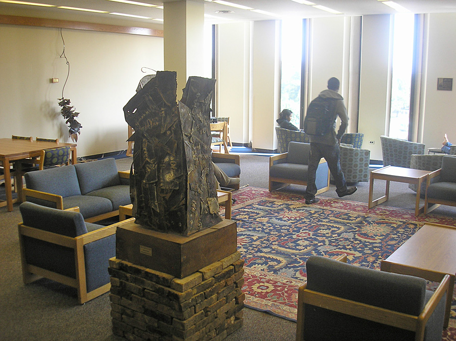 The AJ Schneider Reading Room in Hillman Library at the University of Pittsburgh.